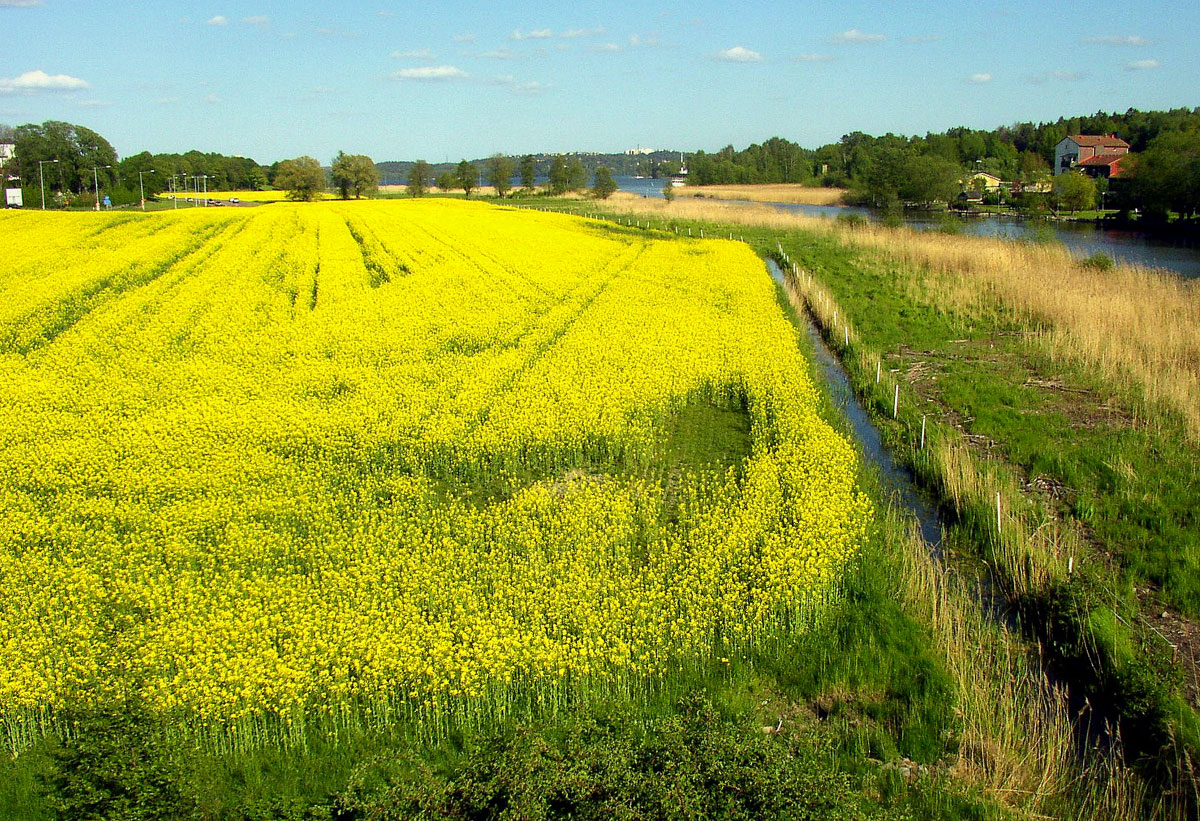 Tappström at Ekerö in Sweden! The centrum is just to the right of the picture.